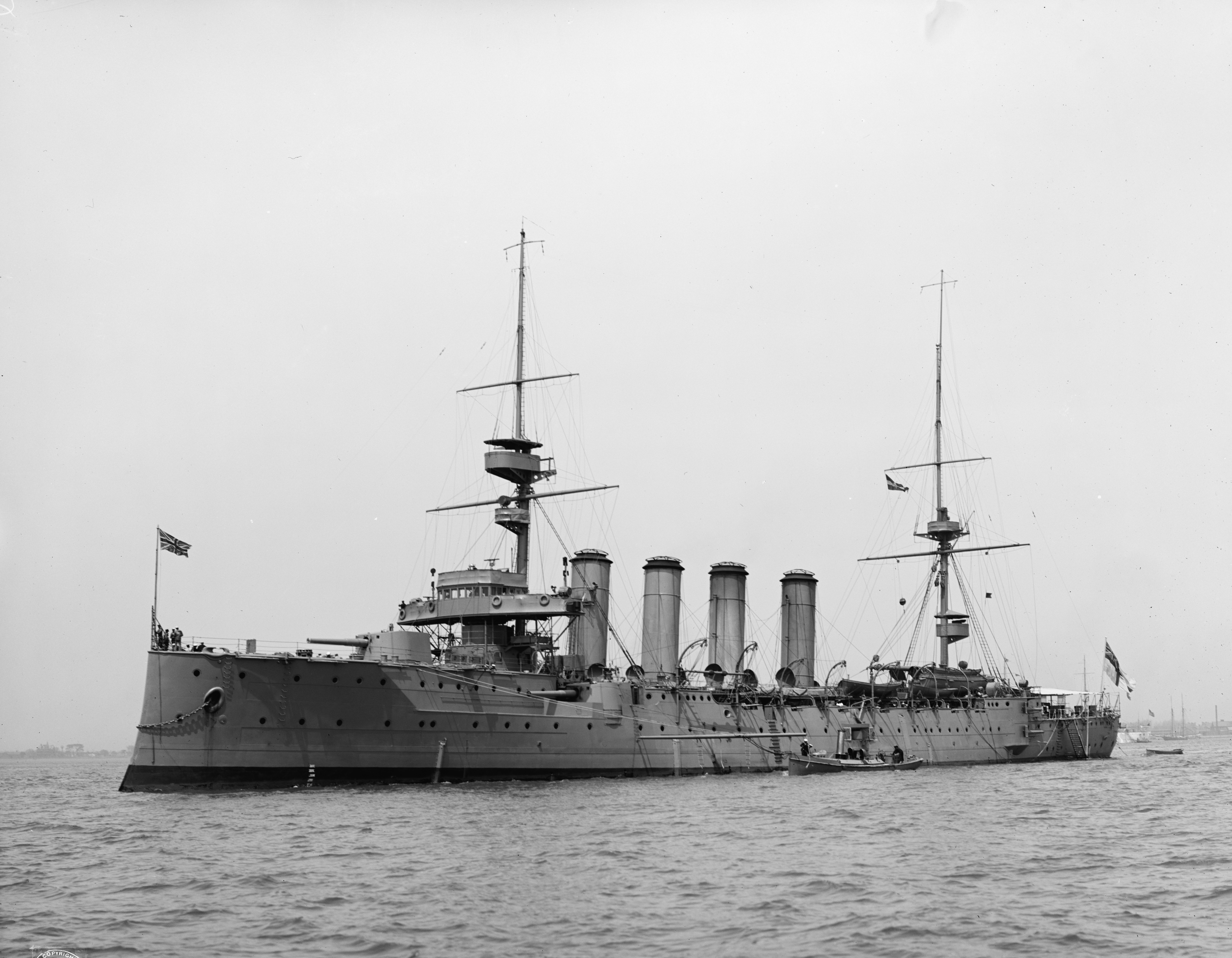 HMS Argyll, a British Devonshire-class armoured cruiser.